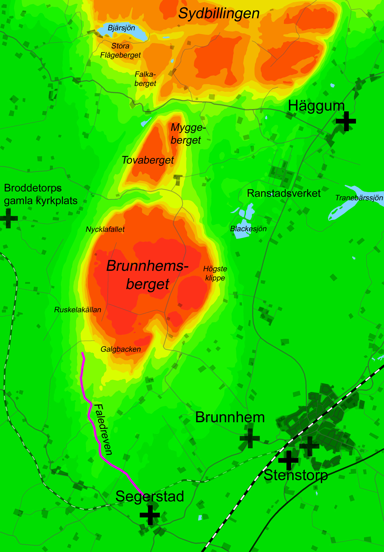 Map over Brunnhemsberget, a table-mountain in Falköpings municipality, in the Falbygden area, former Skaraborg county, Västergötland, Västra Götaland county, Sweden. Brunnhemsberget is situated in the parishes Brunnhem, Segerstad, and Broddetorp in Gudhem hundred, and Häggum parish in Valle hundred. Scale 1:20,000. Topography: Altitude is shown with different colours from green over yellow to red. Water: Lakes are blue. Churches: The churches of Häggum, Segerstad, and Stenstorp parishes are marked with black crosses. The church-ruins of Broddetorp, Brunnhem, and Stenstorp are marked with grey crosses. Roads, populated areas, villages, farms, and larger buildings are different shades of grey. Railways are black-and-white. Faledreven, a old 2.9 km long road for cattle driving, is shown in magenta. Other table-mountains shown on the map are Tovaberget, Myggeberget and the most southern part of Billingen. Northeast of Brunnhemsberget is the abandoned uranium mine Ranstad or "Ranstadsverket". The lakes Blackesjön and Tranebärssjön belongs to the mining area.